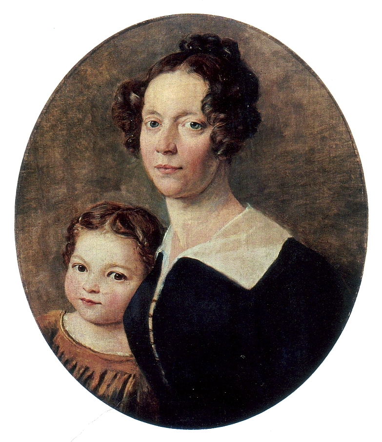 Susanne Schinkel, wife of Karl Friedrich Schinkel, with their daughter Elisabeth.